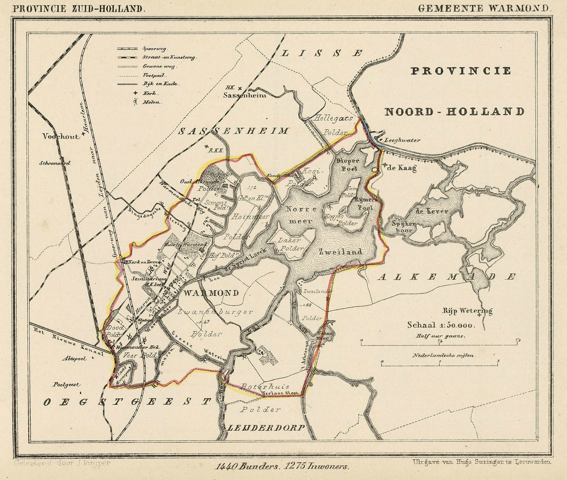 Map from around 1865-1870 of the former municipality of Warmond (Province of South Holland, Netherlands). This municipality encompassed a large part of the Kaag Lakes system. In 2006 Warmond fused with the neighbouring towns Sassenheim and Voorhout to form the new municipality of Teylingen.